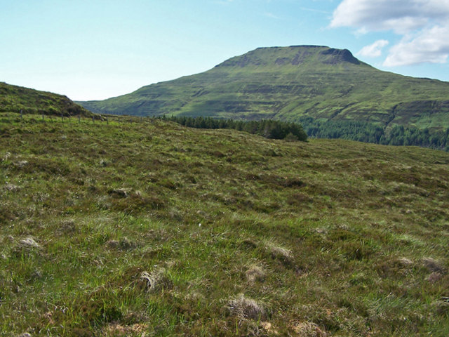 From Cnoc na Pairce towards Healabhal Bheag Cnoc na Pairce is a grass and heather clad hill above Loch Bharcasaig.